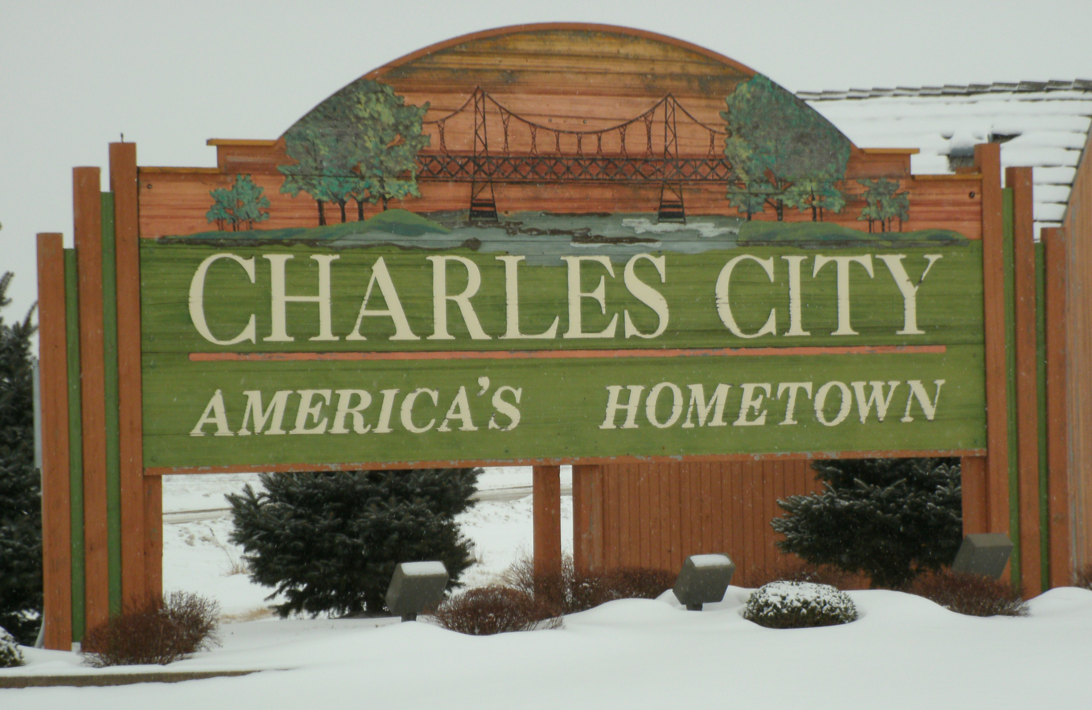 Charles City, Iowa Welcome Sign